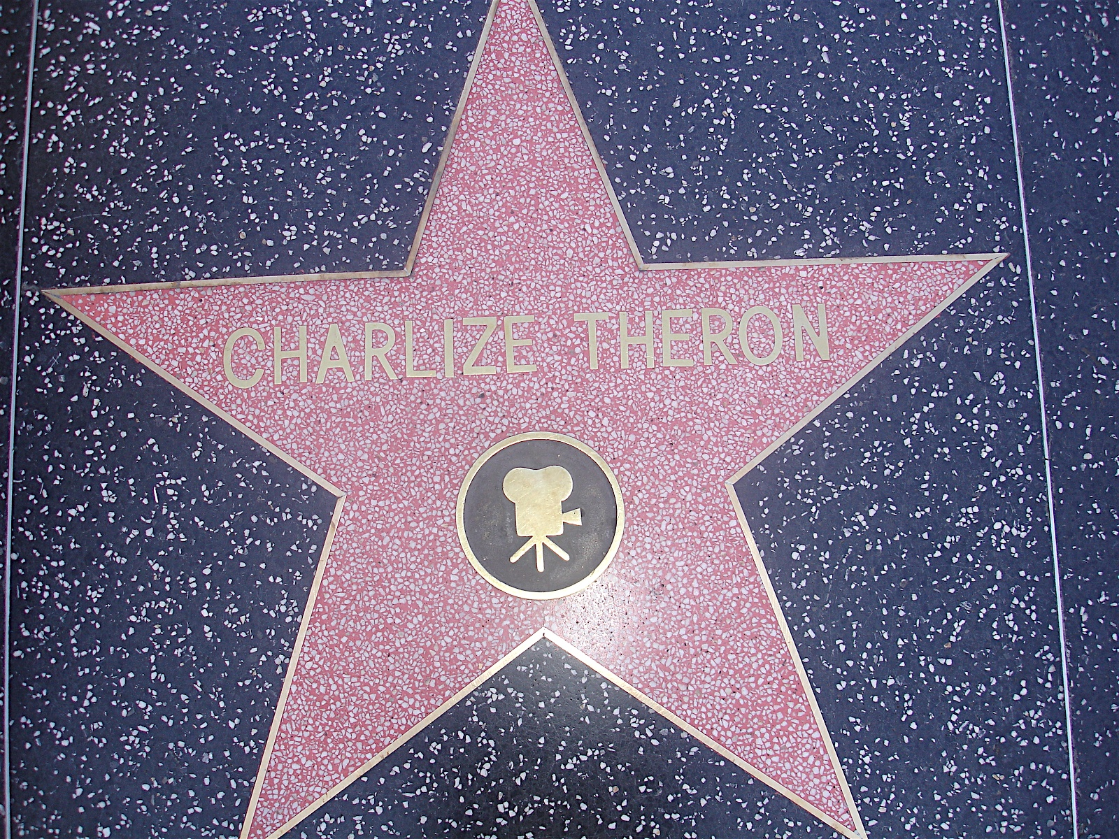 Charlize Theron Hollywood Walk of Fame star